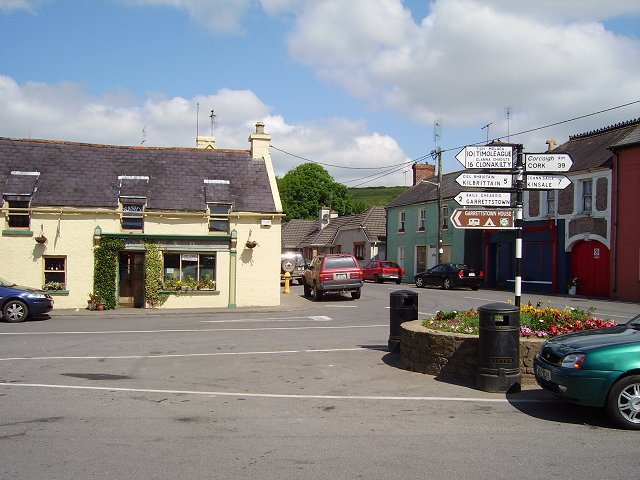 Ballinspittal. Village centre with very traditional road sign.